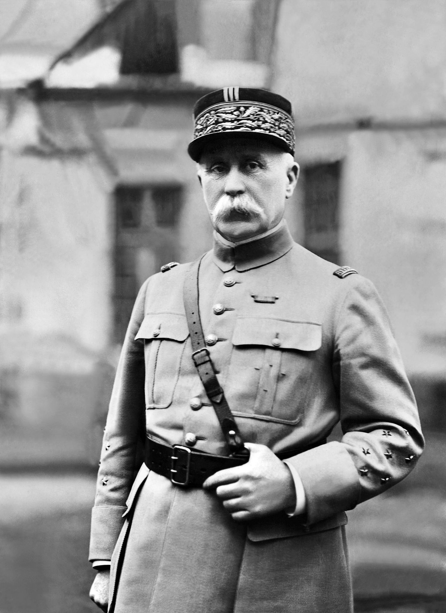 Philippe Pétain photographié par Henri Manuel.